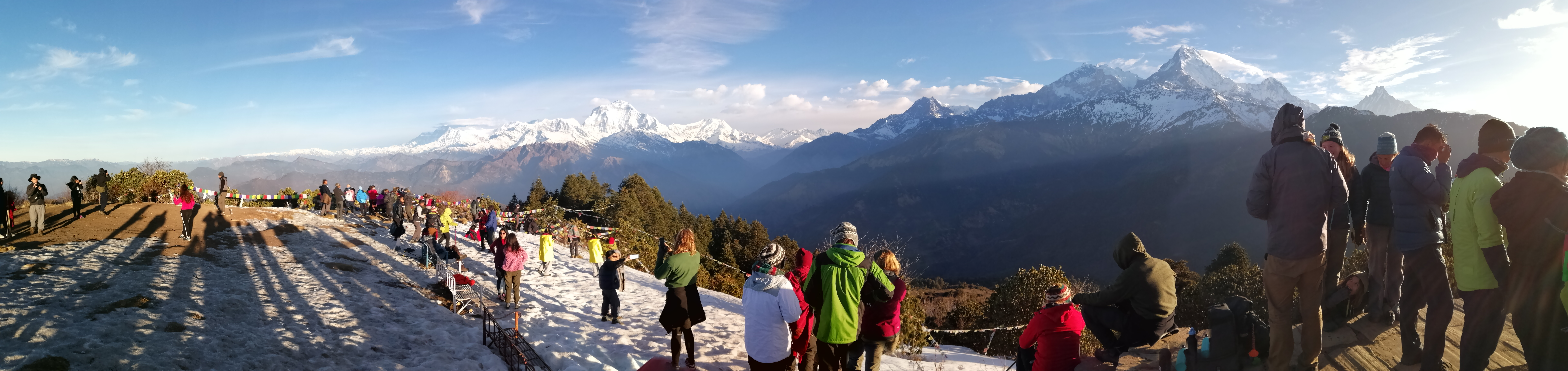 a sunrise view of poon hill 3210 Meter, All Mountain